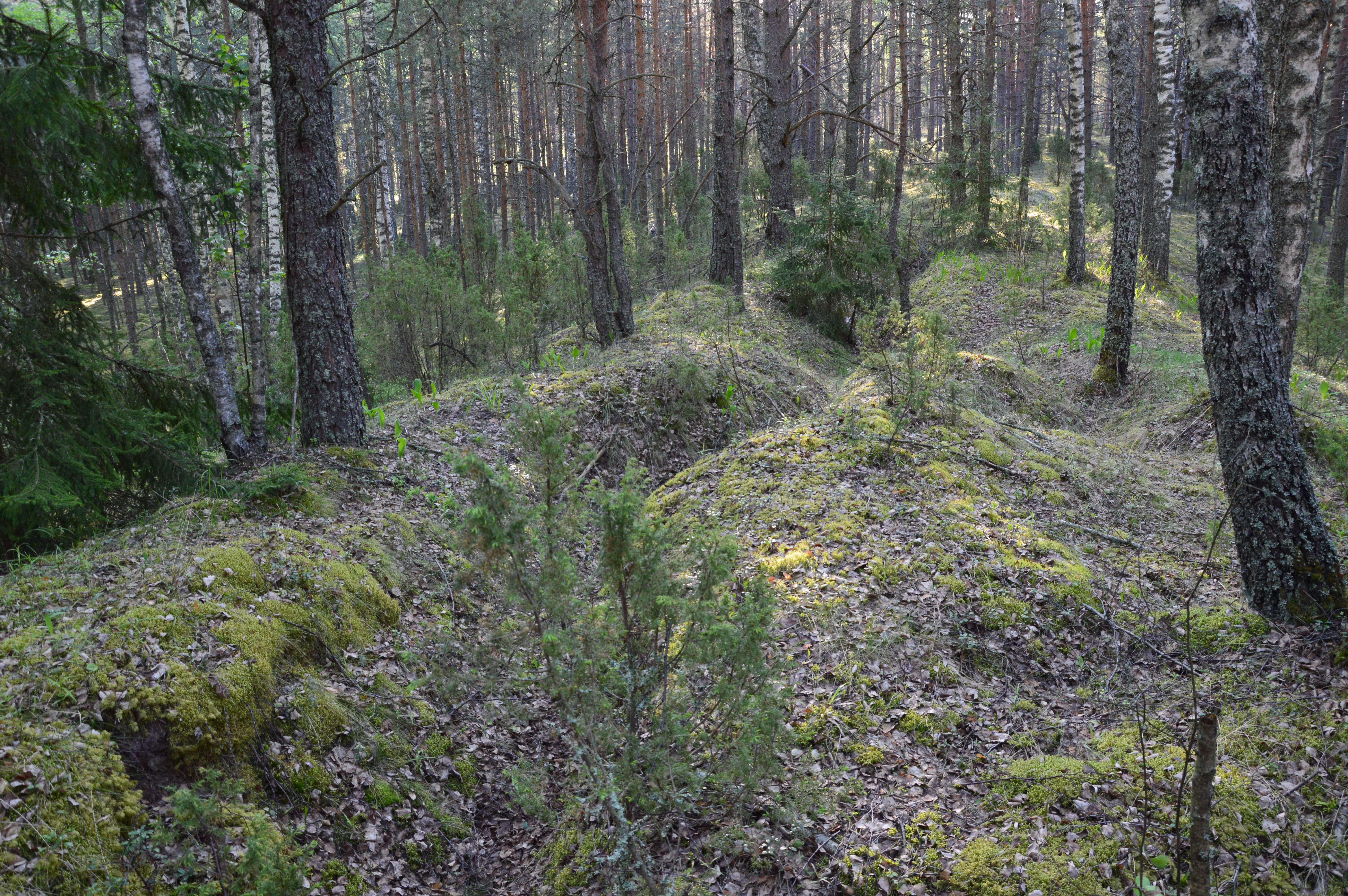 Old trenchline in the borders of Mustoja Nature Reserve.